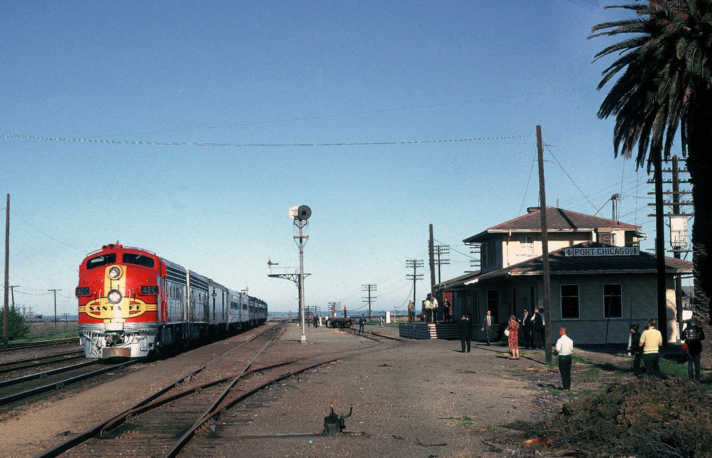 42C Port Chicago april 69